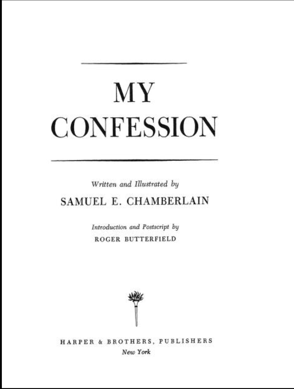 The inlay of Samuel Chamberlain's book My Confession: The Recollections of a Rogue.